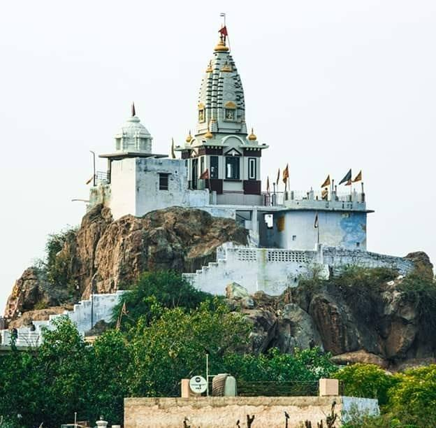 Ancestral Deity of Village Worshiped by villagers since long time